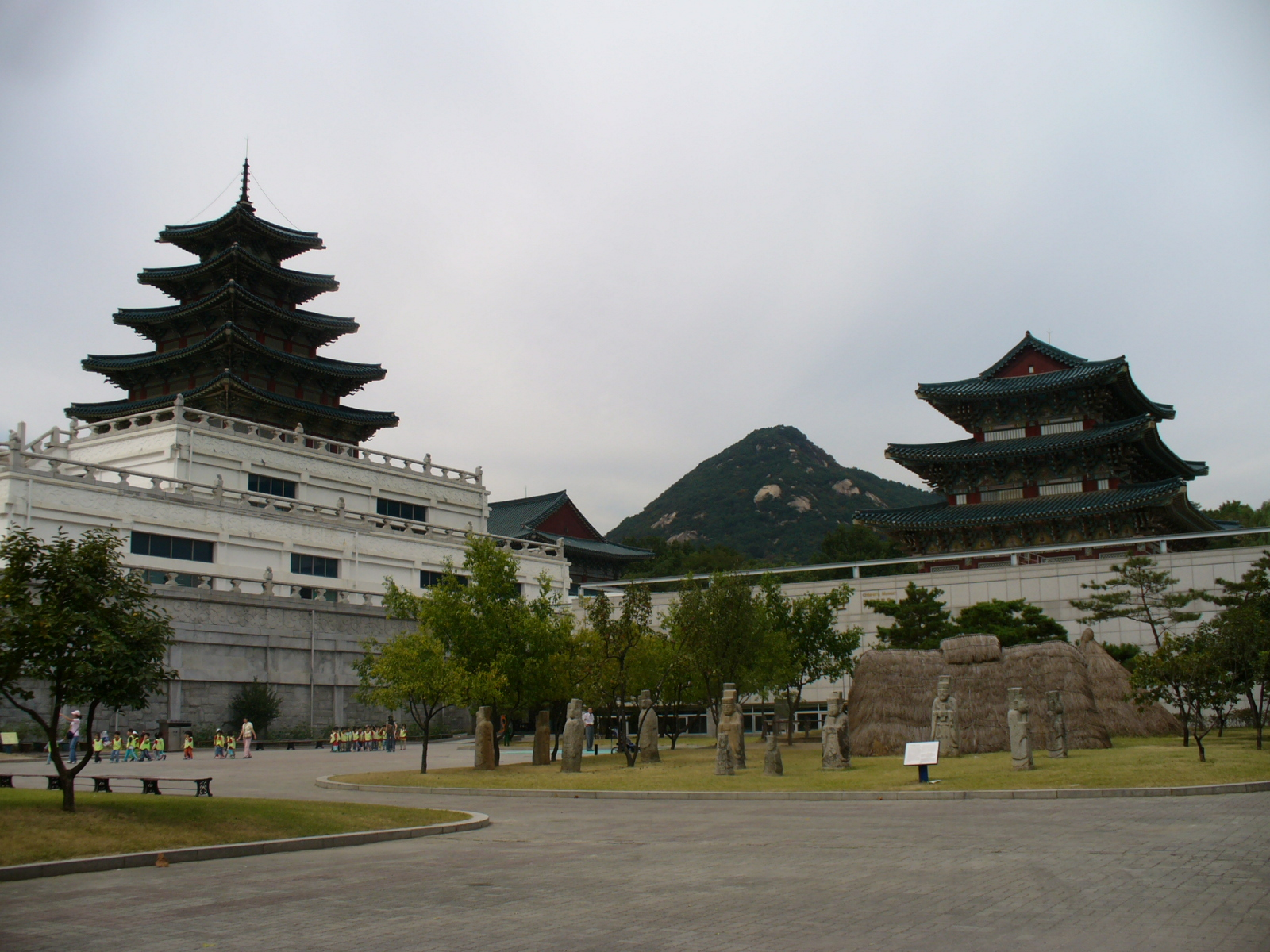 National Folk Museum of Korea located in Gyeongbokgung Palace, Seoul, Korea